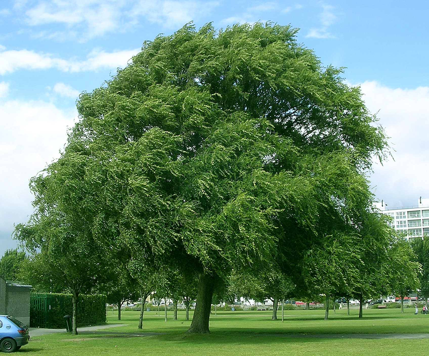 Ulmus 'Den Haag'; Photo taken by author, August 2007, Southsea Common, England.